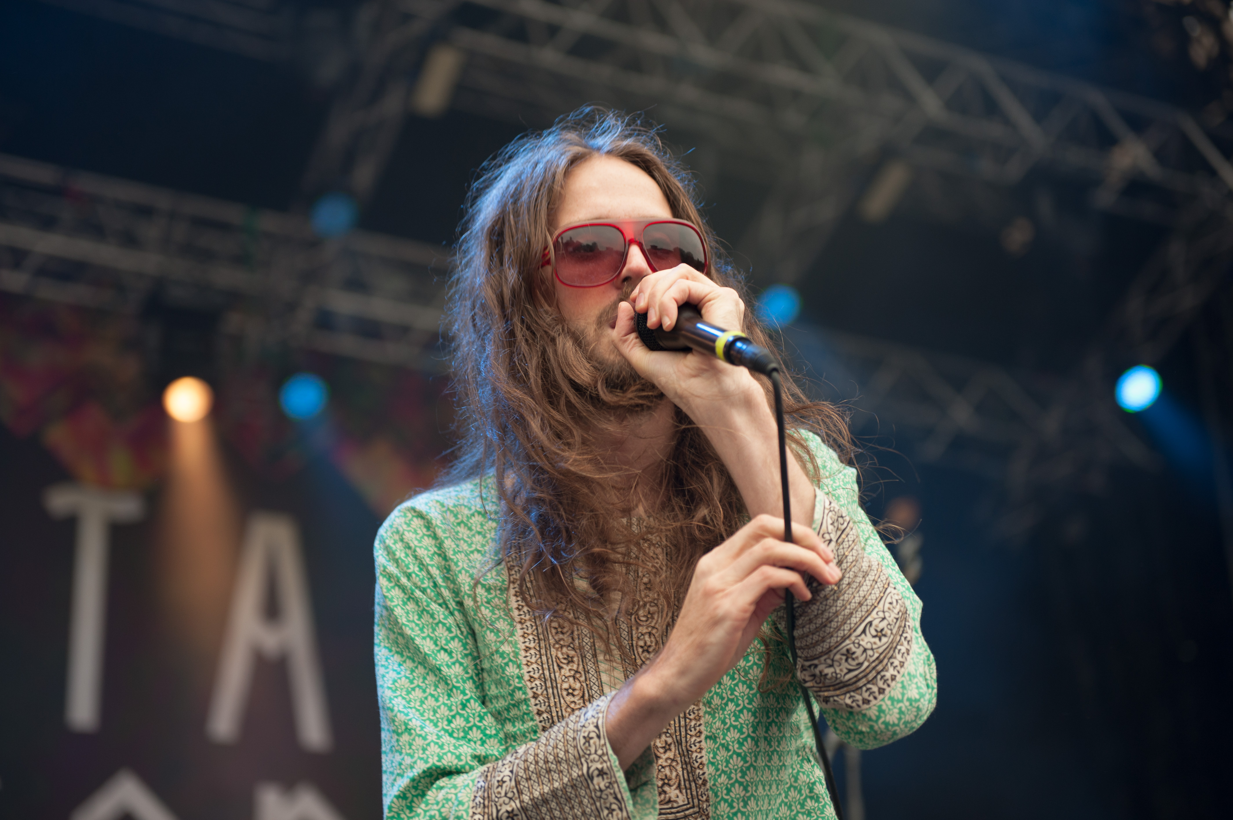 Sebastian Pringle of Crystal Fighters at Way Out West 2013 in Gothenburg, Sweden